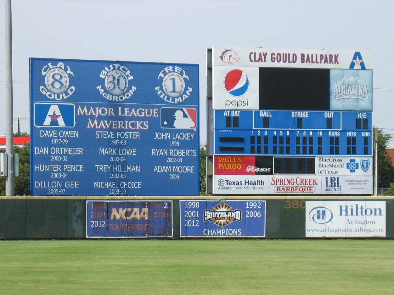 The scoreboard, brag board and championship banner in left center field at Clay Gould Ballpark